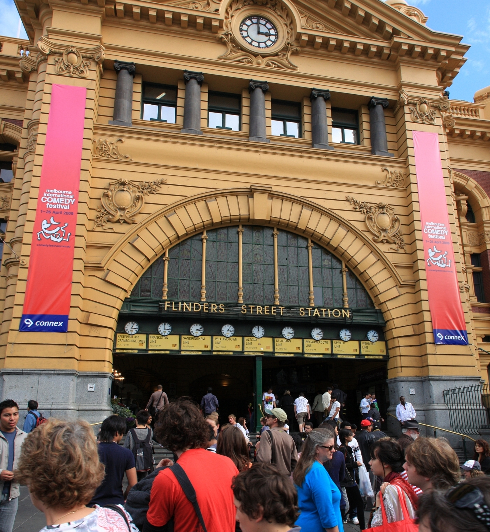 Flinders Street Train station entrance in Melbourne